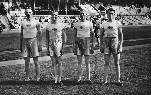 Olympic Games 1912. Swedish relay team 4x100 m. Knut Lindberg, Charles Luther, Ivan Möller, Ture Person.